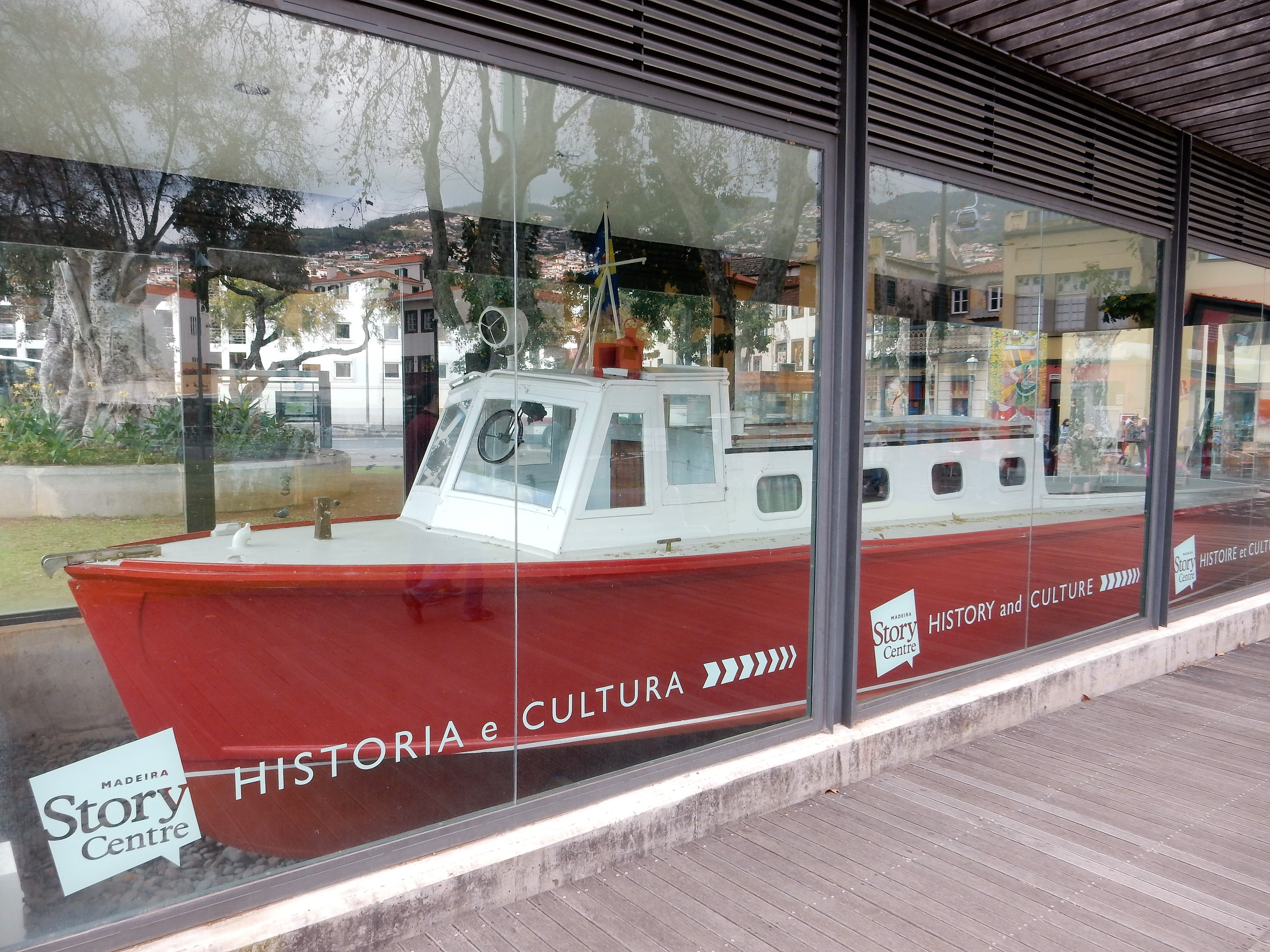 Barge Aquila, which served as a ferry for seaplane passengers by Aquila Airways; Almirante Reis Park, Funchal, Madeira